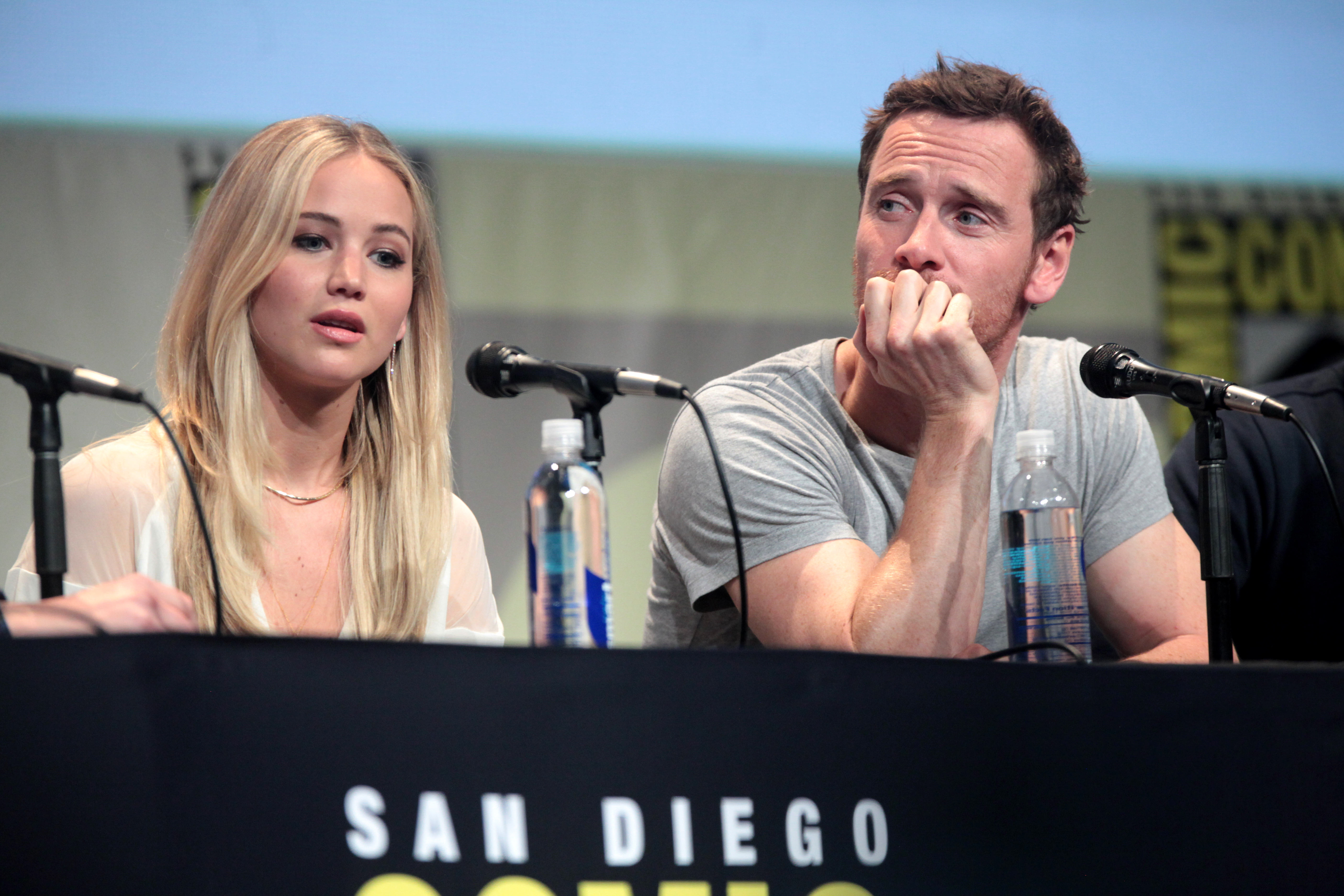 Jennifer Lawrence and Michael Fassbender speaking at the 2015 San Diego Comic Con International, for "X-Men: Apocalypse", at the San Diego Convention Center in San Diego, California.